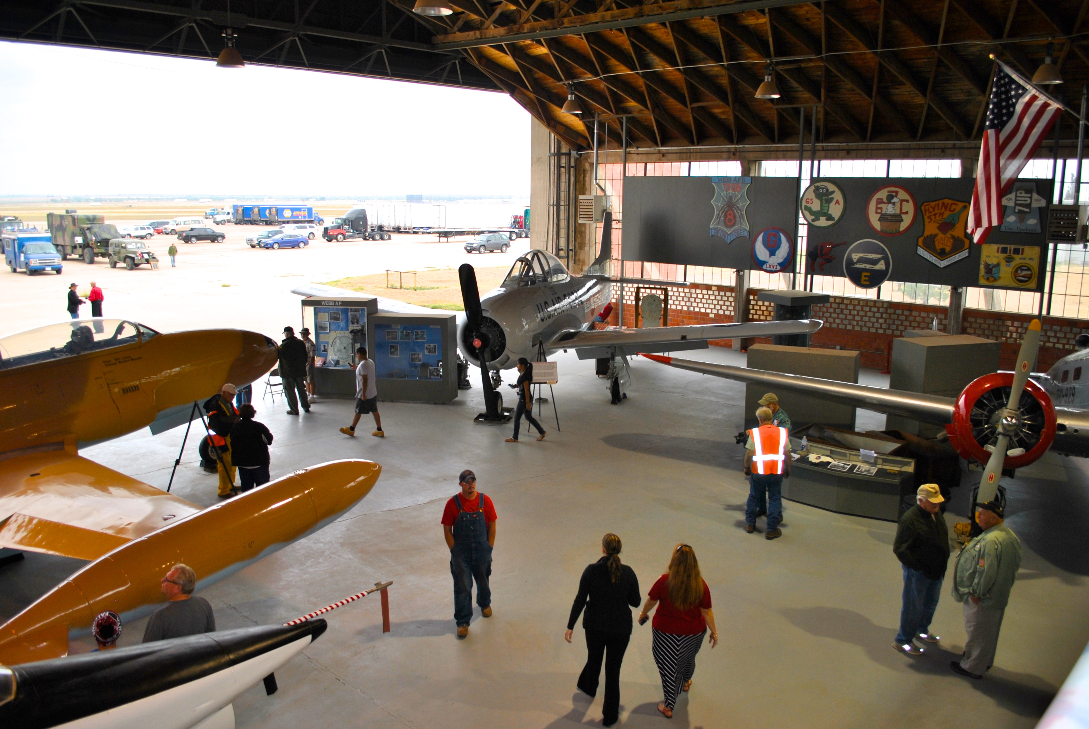 MVPA Convoy Fall 2015